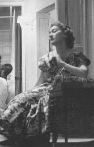 Claudia Madero- actriz